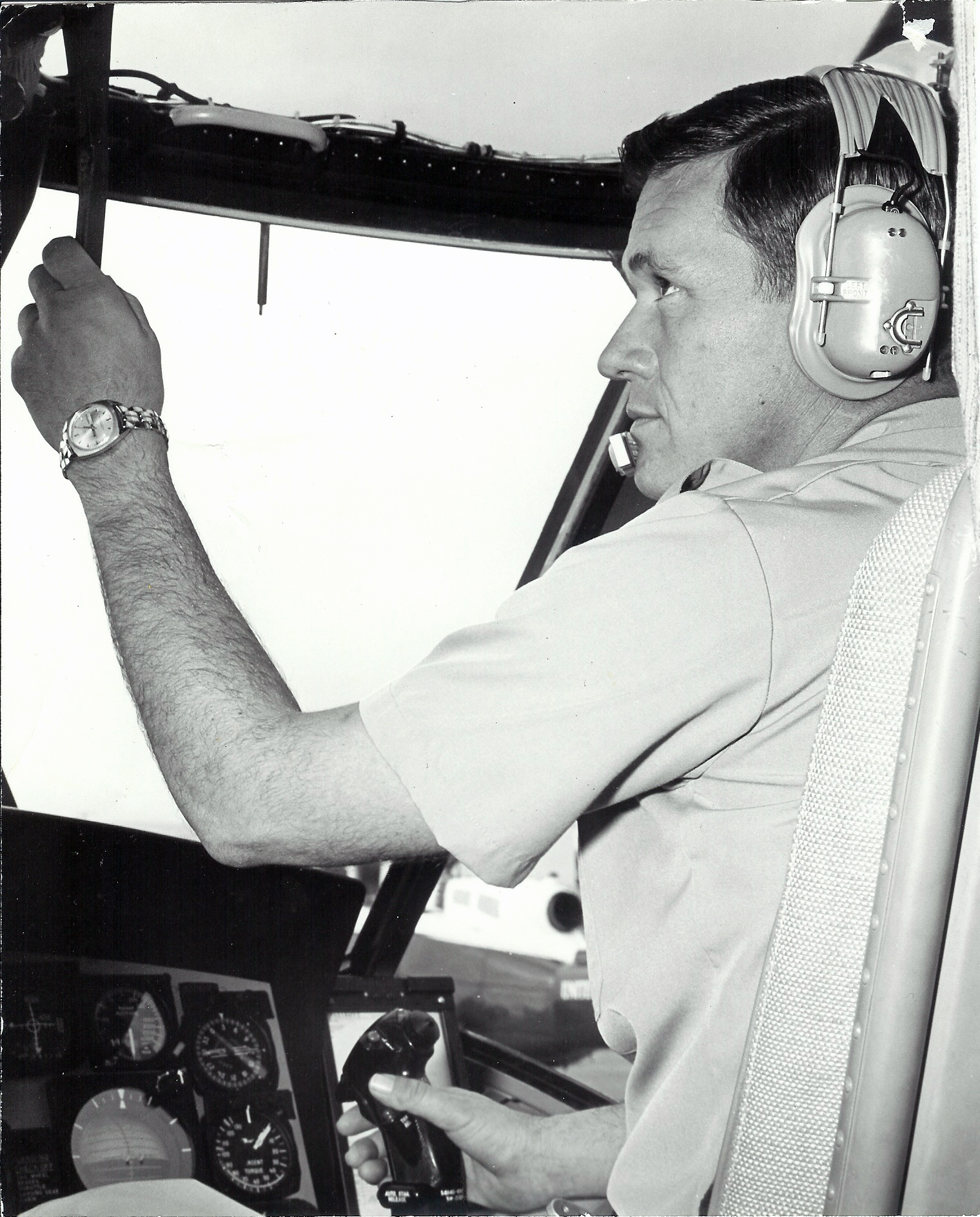 Lt. Col. Gene Boyer in the pilot's seat of Army One